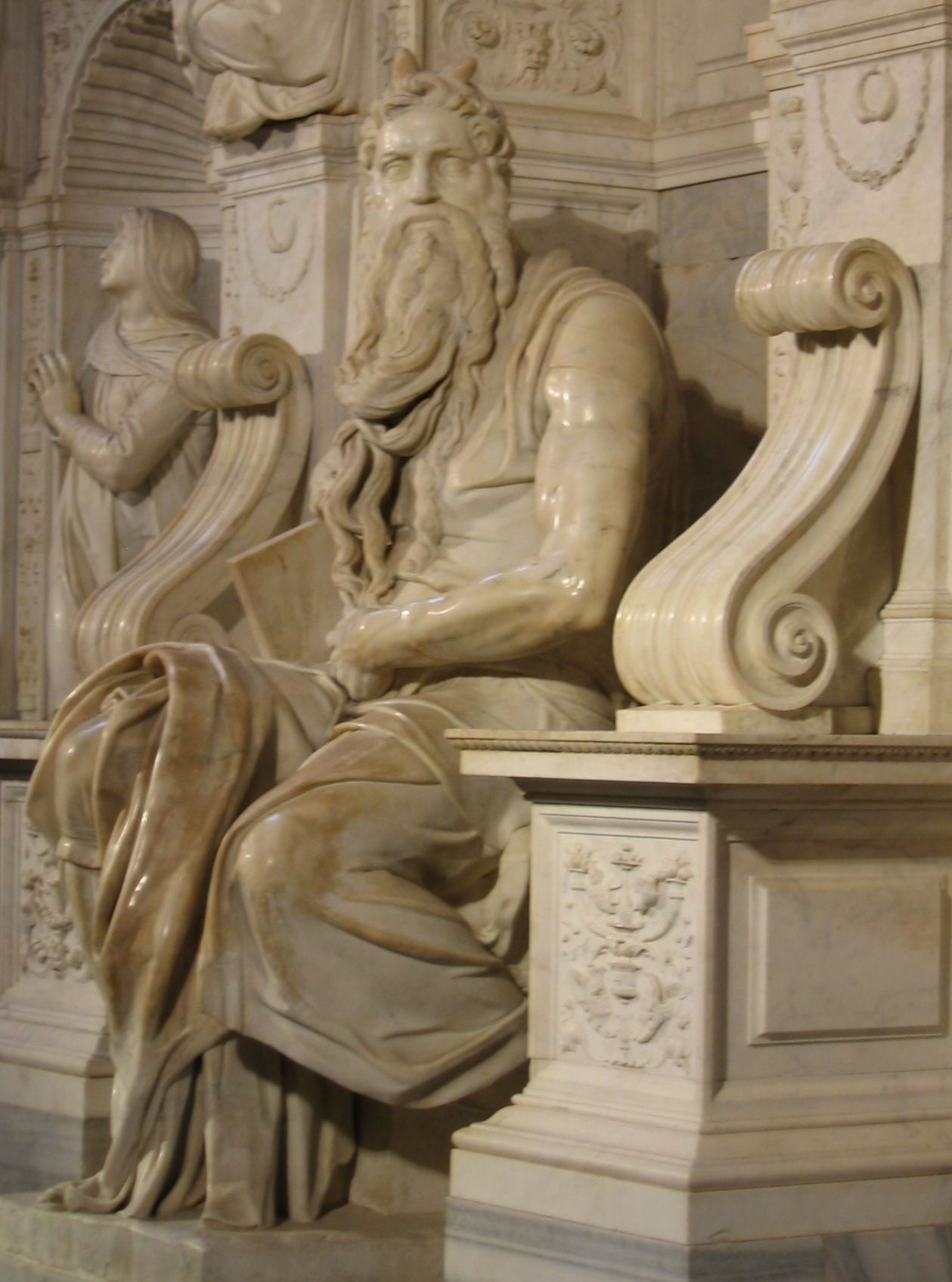 Michaelangelo's statue of Moses in the Basilica de San Pietro in Vincoli in Rome.